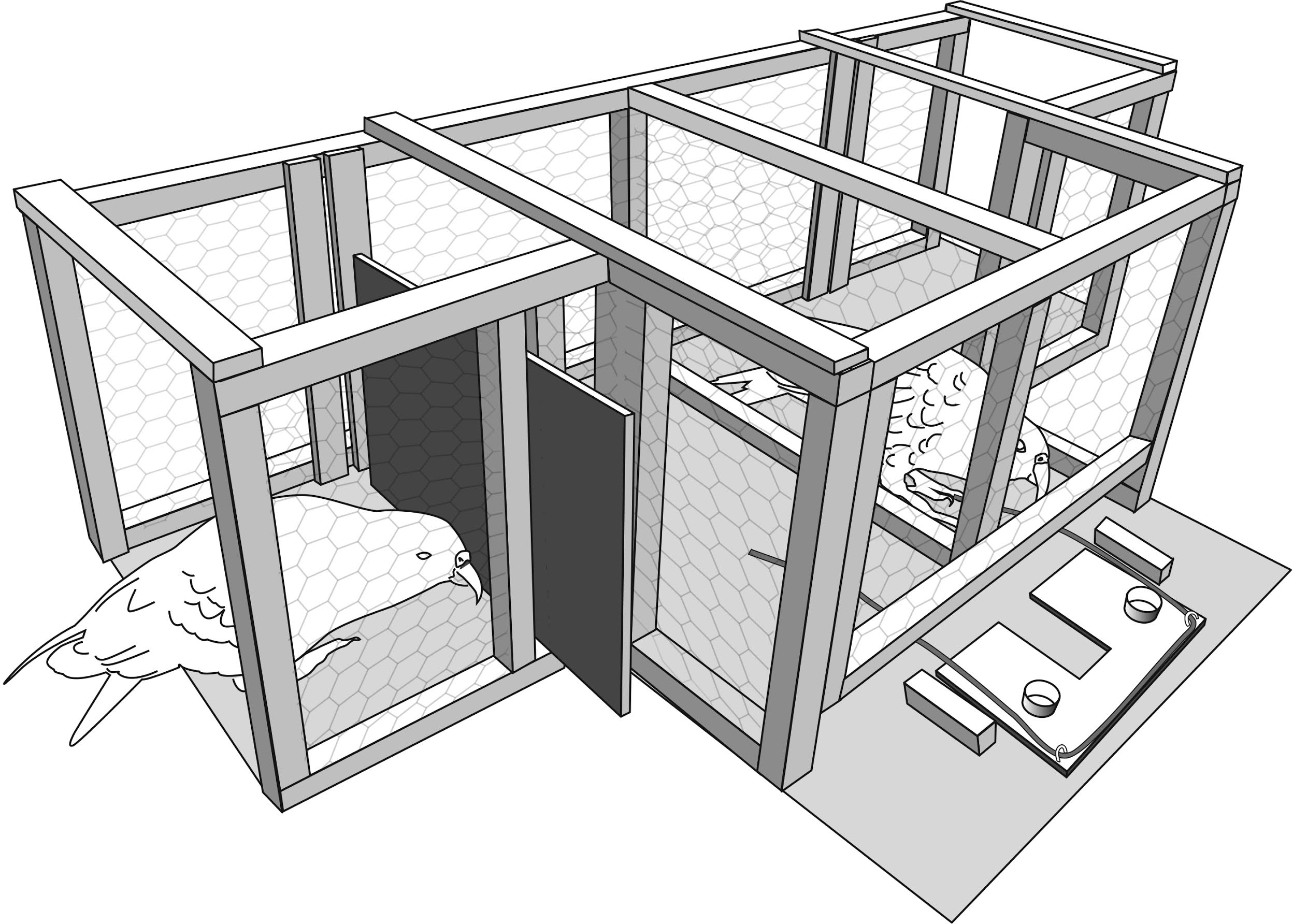 Fig 2. of the scientific article by Heaney M, Gray RD, Taylor AH (2017) Keas Perform Similarly to Chimpanzees and Elephants when Solving Collaborative Tasks. PLoS ONE 12(2): e0169799. Drawing showing experimental setup for the delayed partner arrival experiment. Subject is presented with the duo platform which can only be pulled in when the partner arrives at the apparatus.